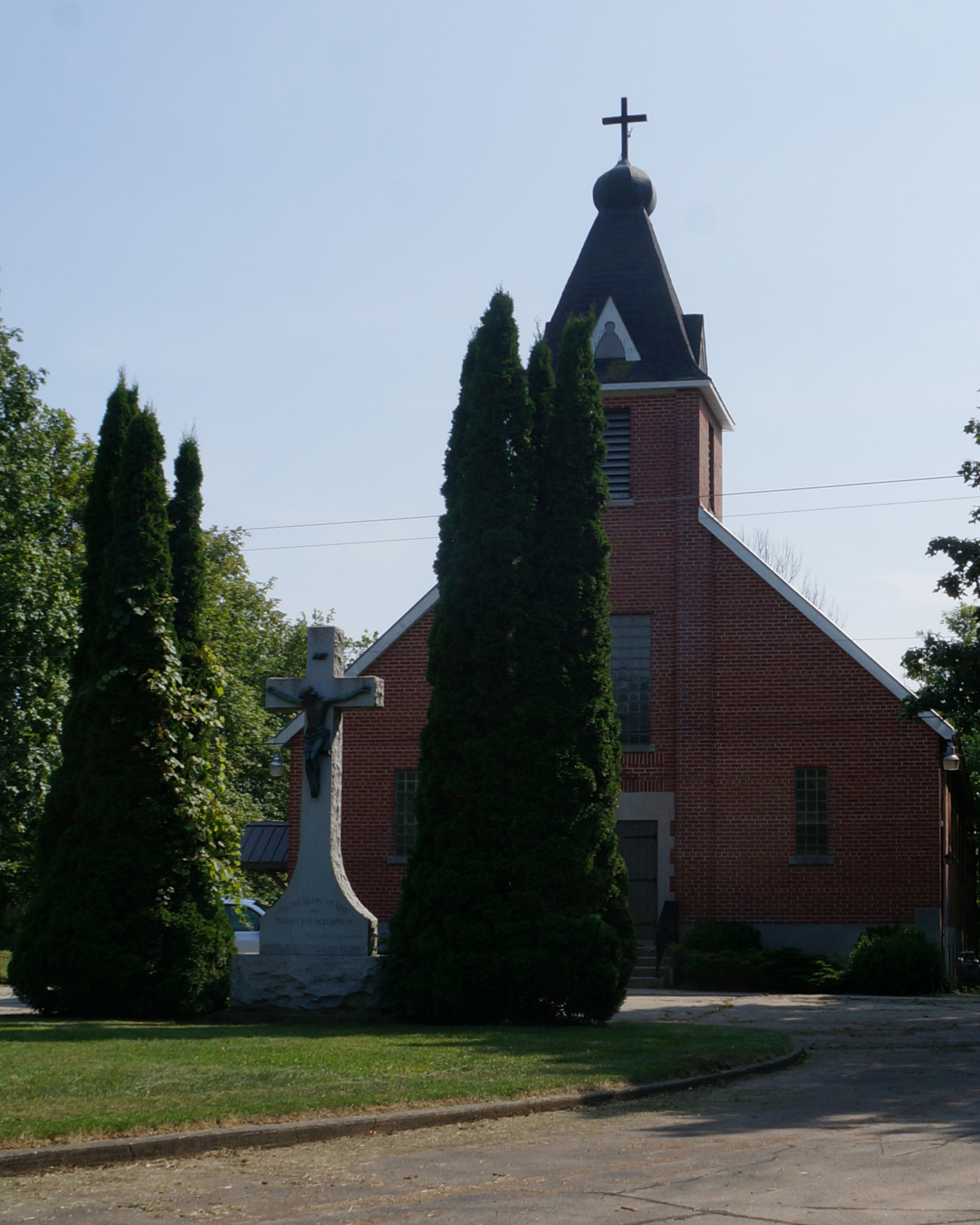 Former St. George Hungarian Greek Catholic Church in Courtland, Ontario.